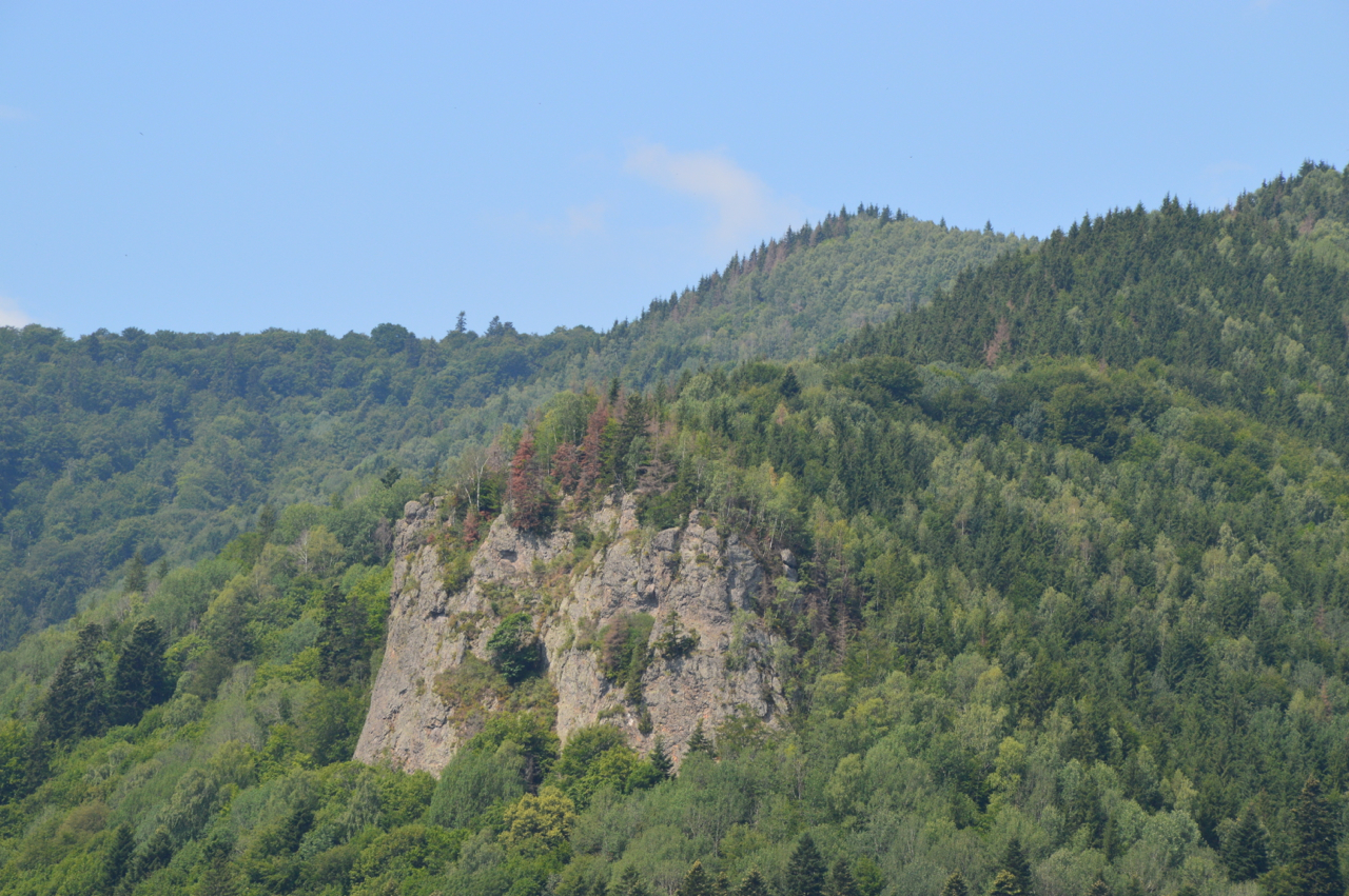 The Falcon's Stone in Băile Tușnad